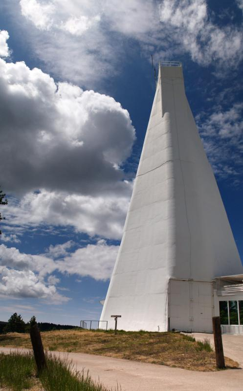 05-25-09 140-0, National Solar Observatory, Sacramento Peak, New Mexico, USA.